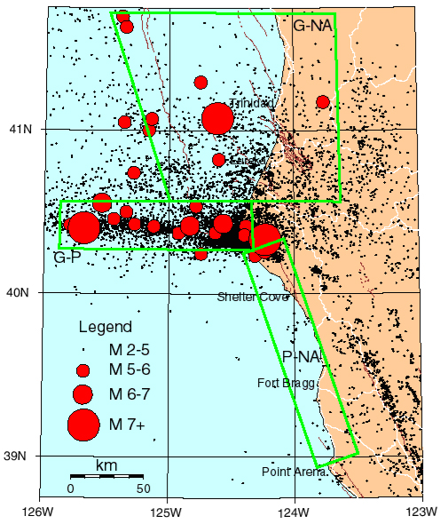 Dots are from 1985-2003 earthquakes with magnitude greater than 2 near Eureka and Ferndale in northern California. Major roads in white; known active faults in brown. Green boxes refer to active plate interations G-NA = Gorda/North America Plates, G-P = Gorda/Pacific Plates and P-NA=Pacific/North America Plates.